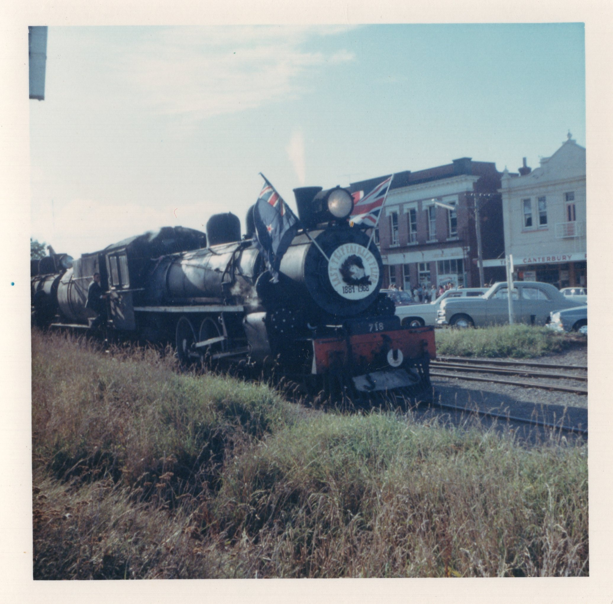 Last ride of the 'Fairlie Flyer' as it stops in Pleasant Point bound for Timaru.